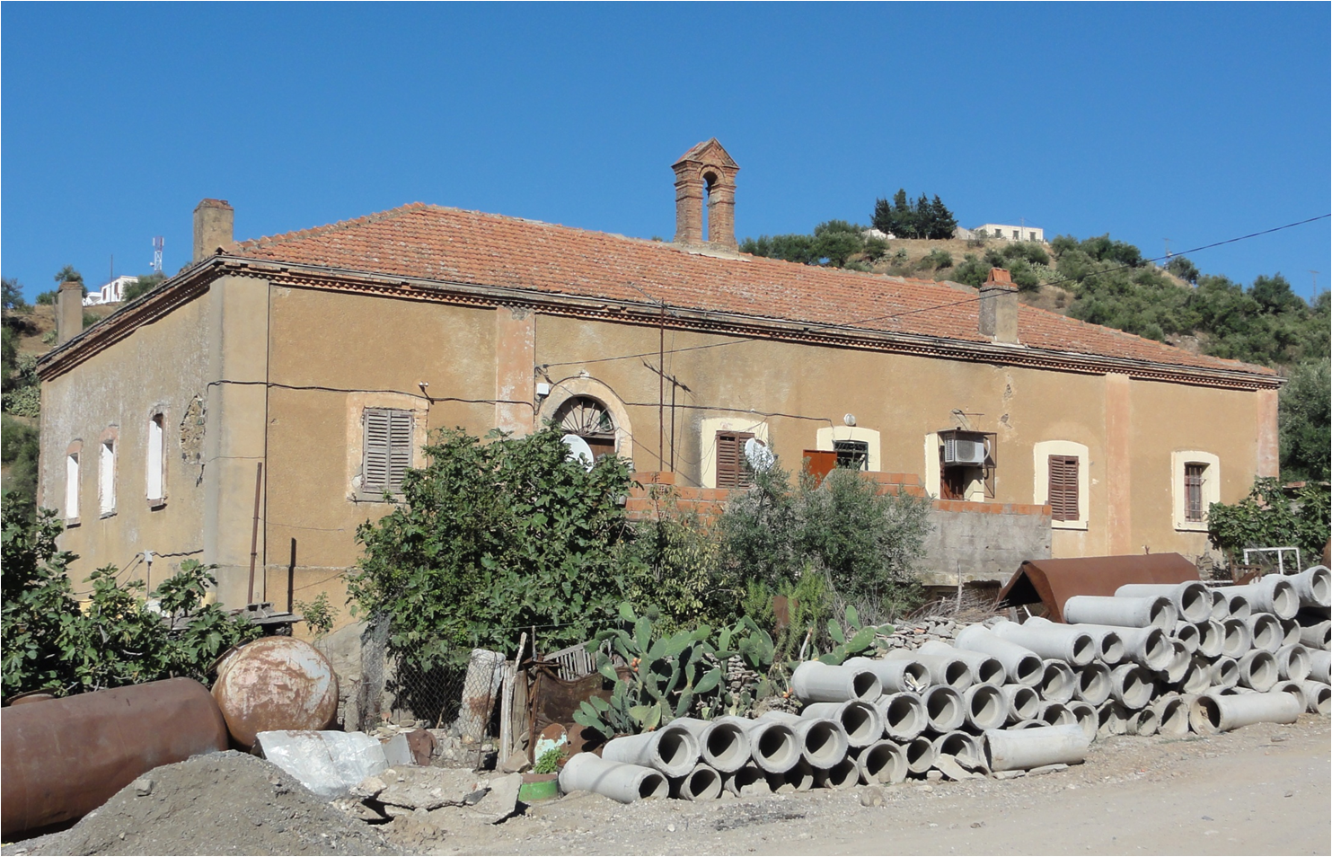 Bounouh Cathedral